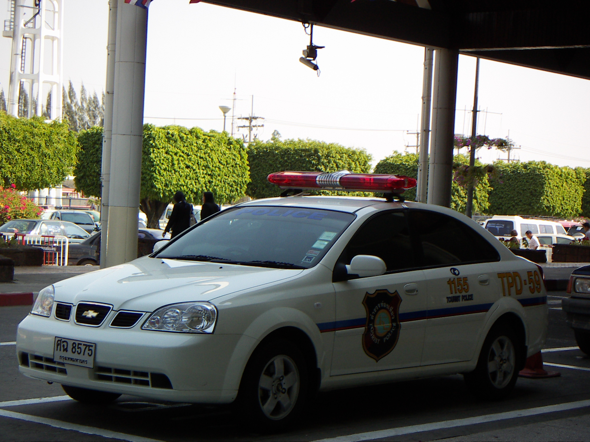 Tourist police car